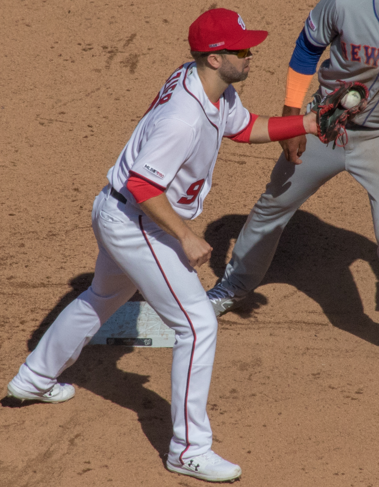 Brian Dozier of the Washington Nationals and Amed Rosario of the New York Mets during a 2019 game at Nationals Park in Washington, D.C.